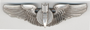 United States Army Air Forces Bombardier's badge